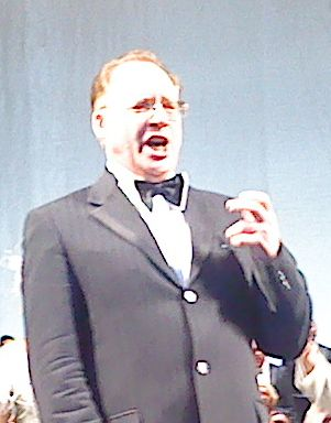 Maksim Dunayevsky